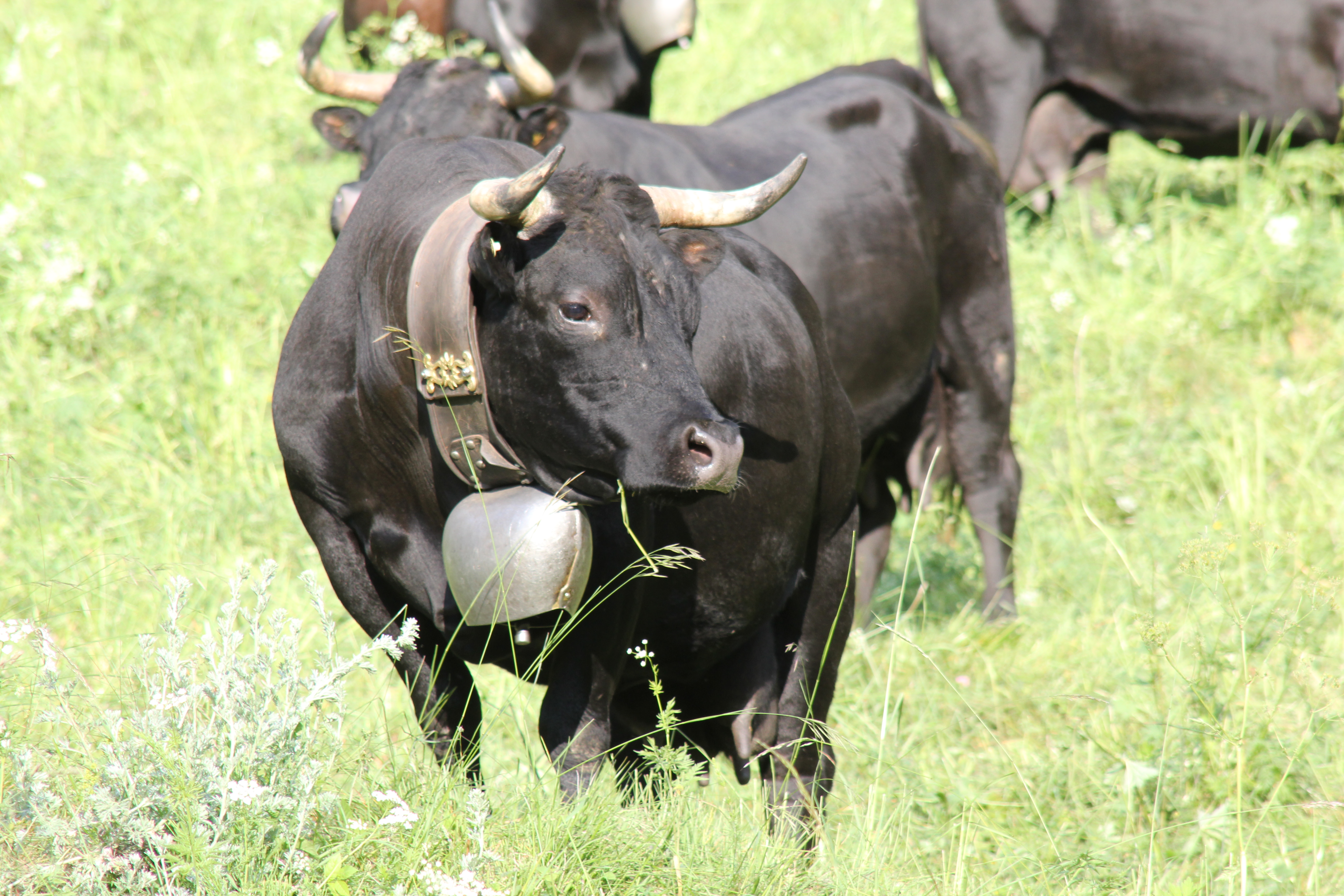 Eringer-Kuh in Saint-Jean, Canton du Valais, Switzerland